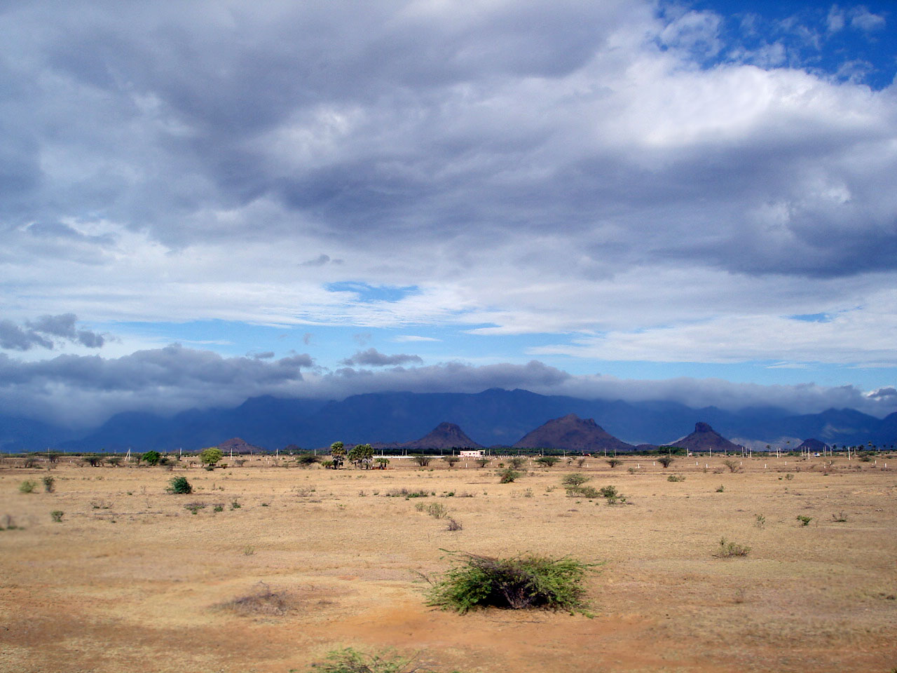 The Agasthiyamalai range of the western ghats as seen from the rainshadow region of Tirunelveli, India. The southwest monsoon brings rain up to the ghats in Kerala while the other side in Tamil Nadu remains dry.